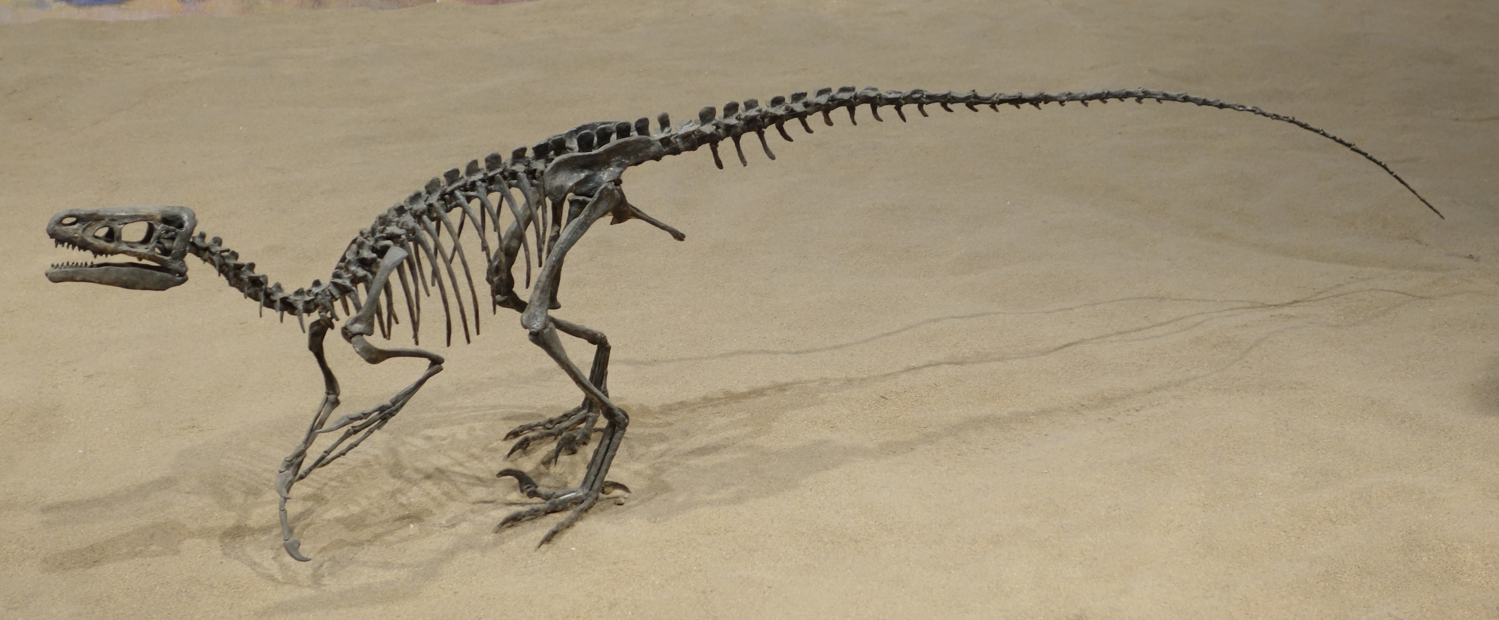 Casts of Ornitholestes hermanni. On display at the Royal Tyrrell Museum, Alberta, Canada.